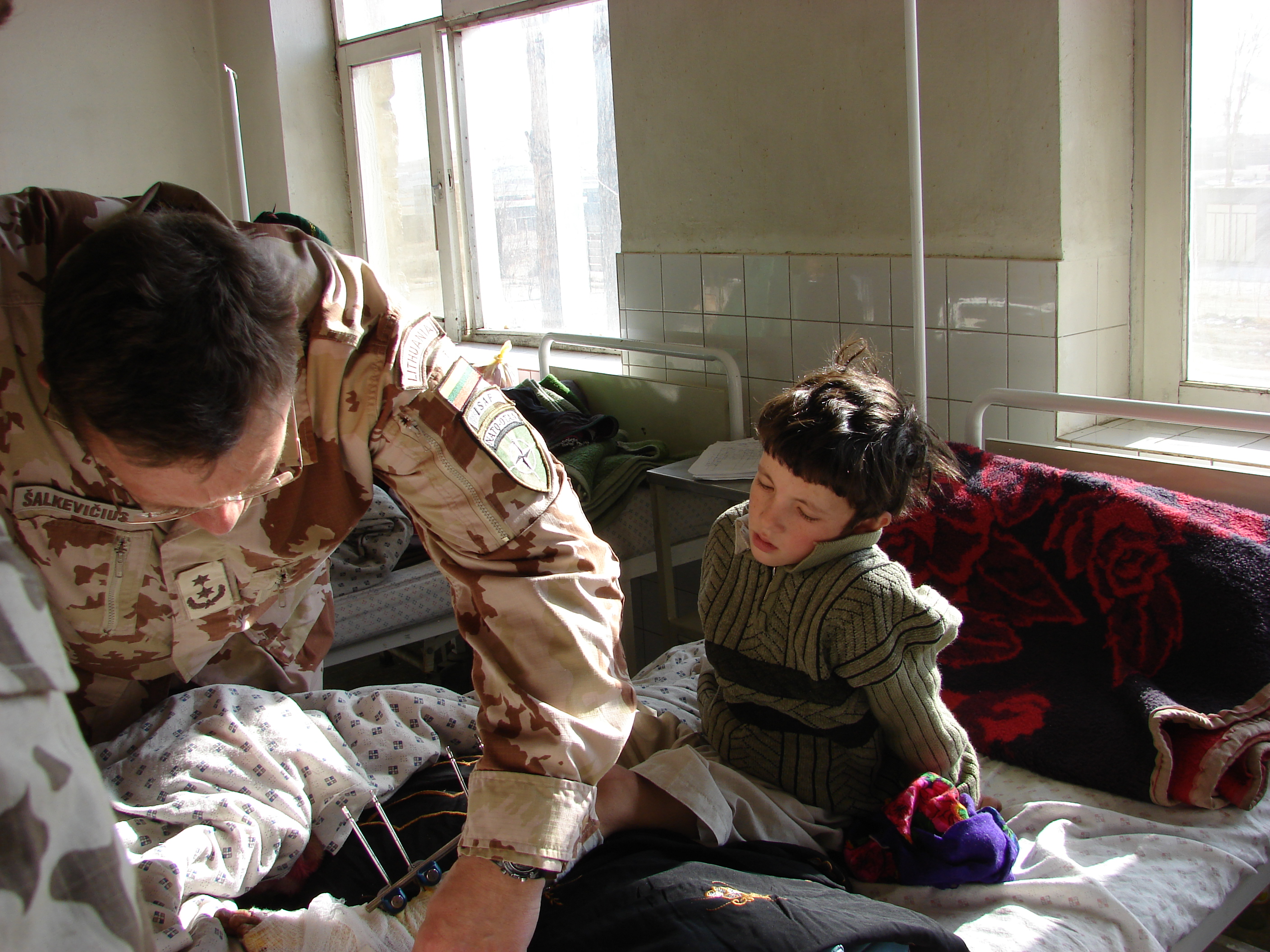 Lithuanian PRT in Chaghcharan medic is visiting patient in Chaghcharan hospital. Photo by Tomas Balkus of Lithuania.